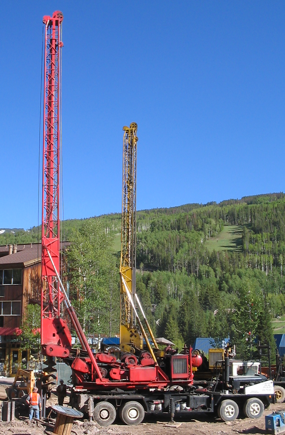 A giant truck-mounted drill in Lionshead, Vail, Colorado. David Benbennick took this photo on June 14, 2005 at 5:29 PM (23:29 UTC).